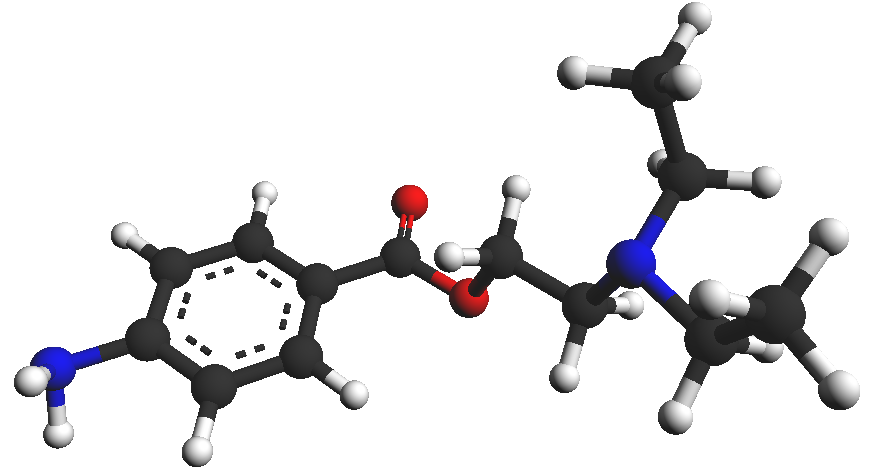 A procaine molecule model, made with arguslab